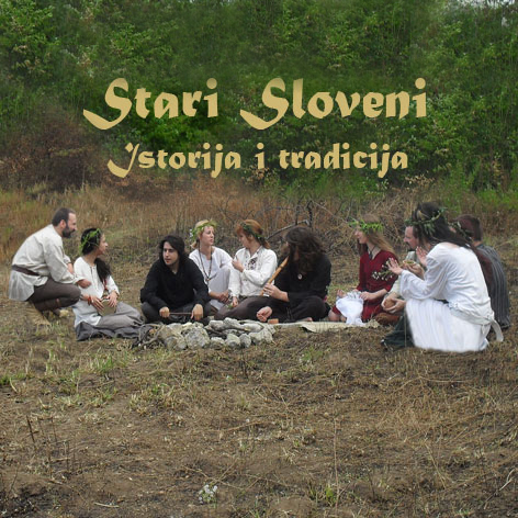 Cover of the movie ,,Stari Sloveni - Istorija i tradicija" (Old Slavs - History and beliefs)